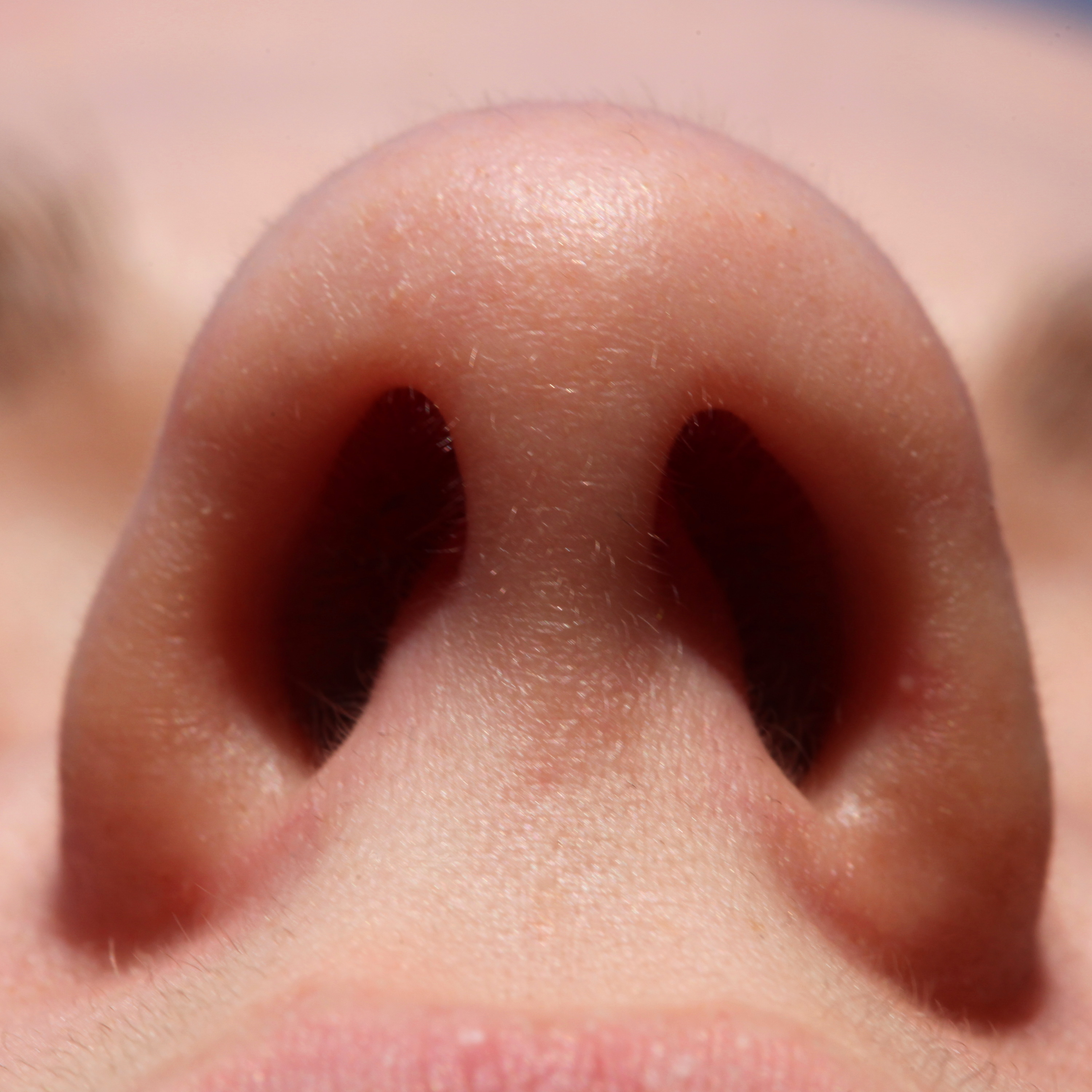 Human nostrils. In this case of a young woman.